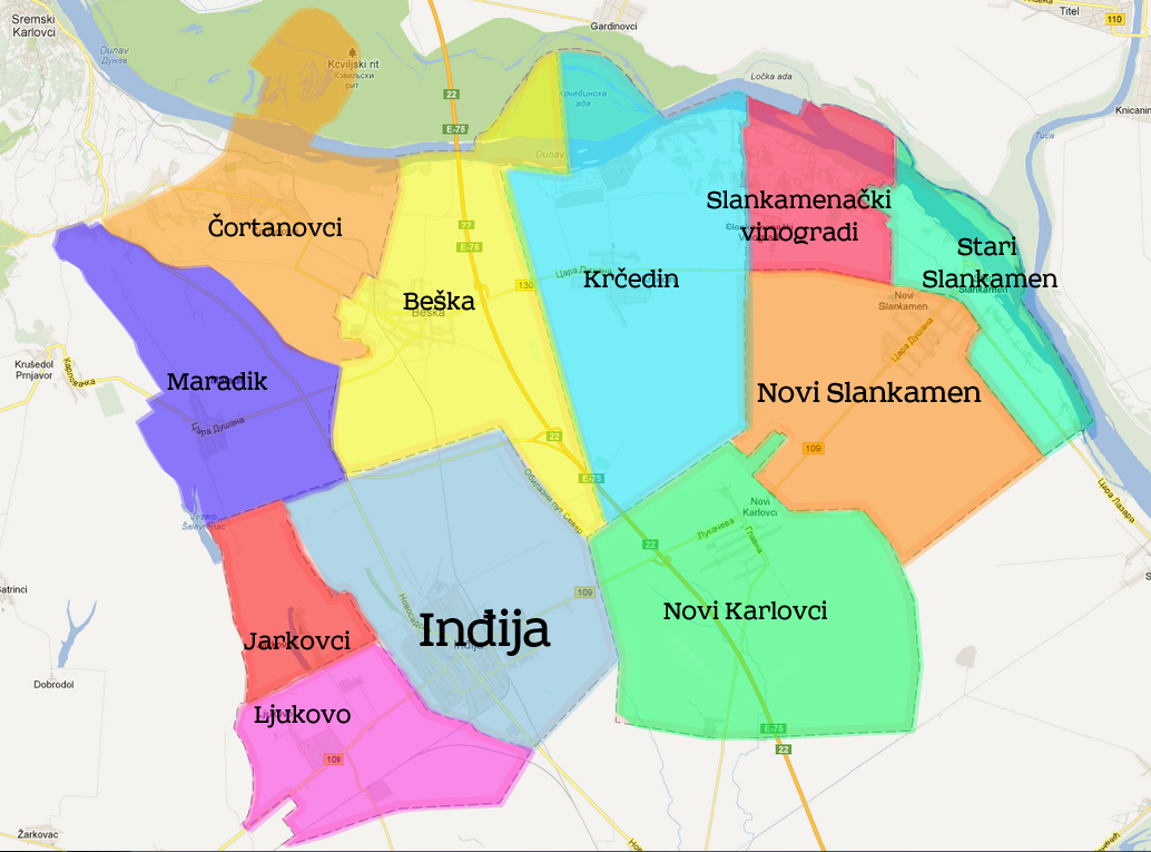 City of Indjija with surrounding villages.